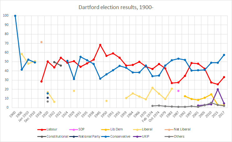 Dartford election results